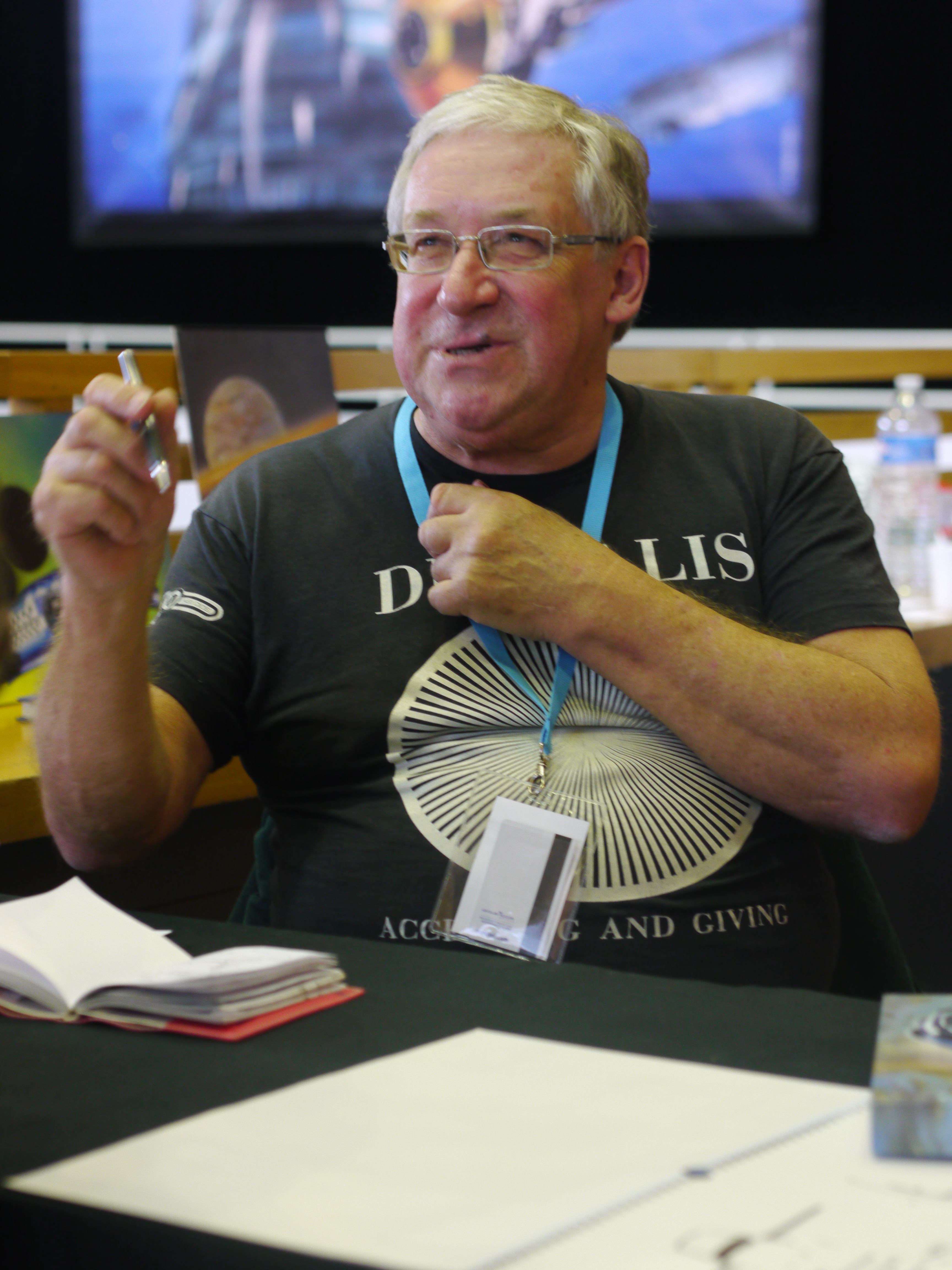 photograph taken at the 2014 edition of the "Utopiales" in Nantes.